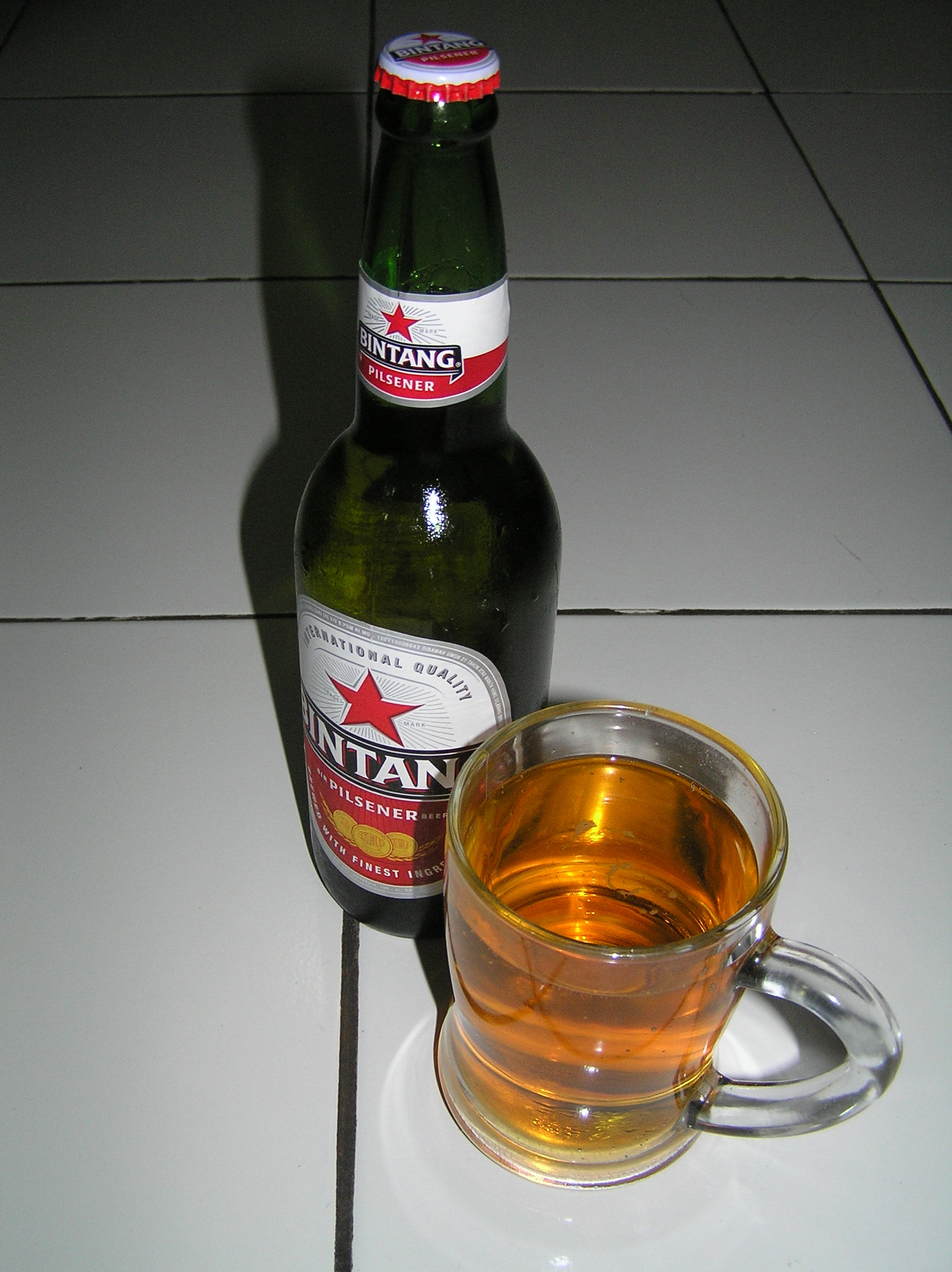 A bottle of Indonesian Bir Bintang